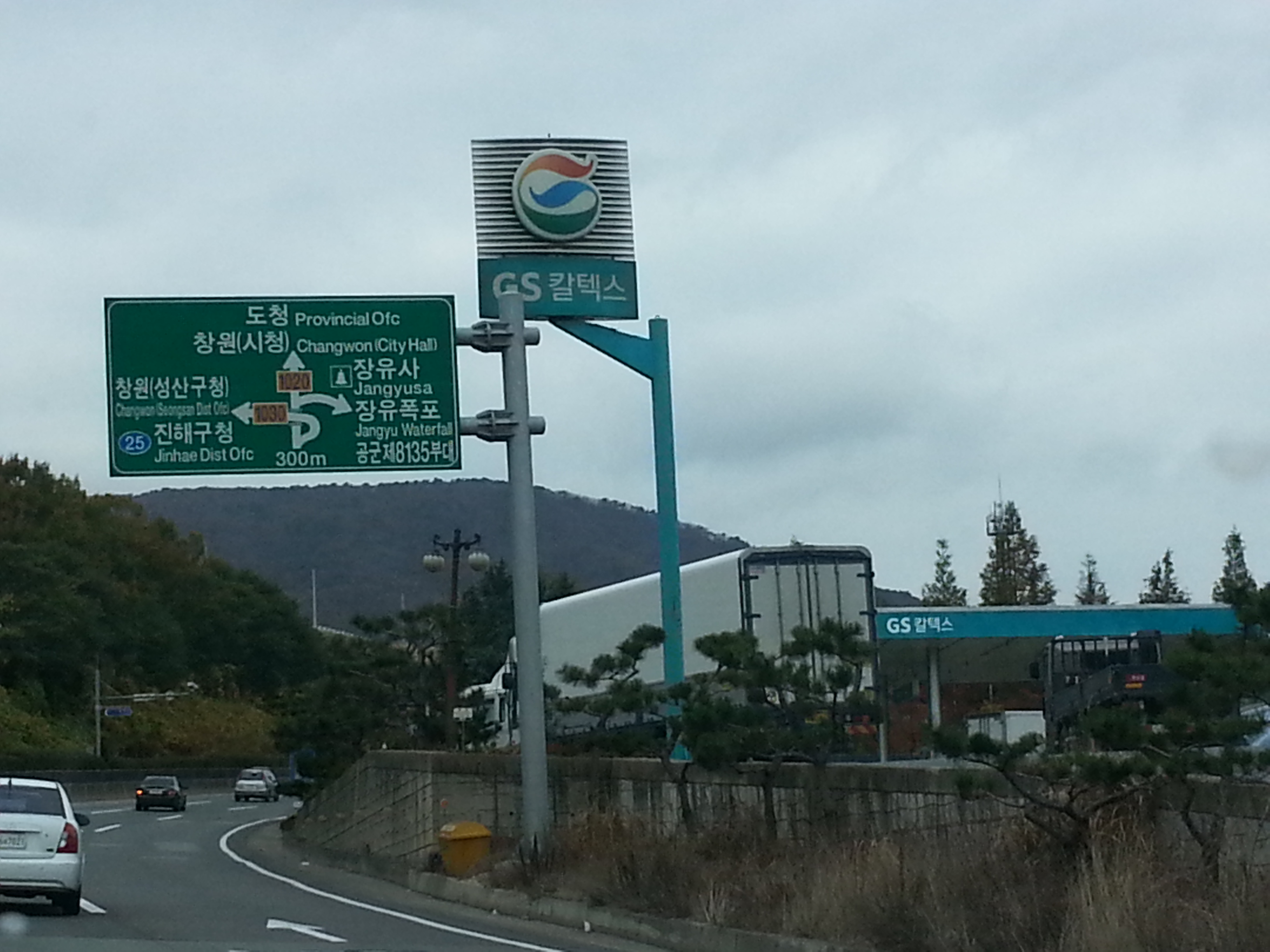 A GS Caltex gas station and a road sign at Changwondae-ro, Gimhae, South Korea.